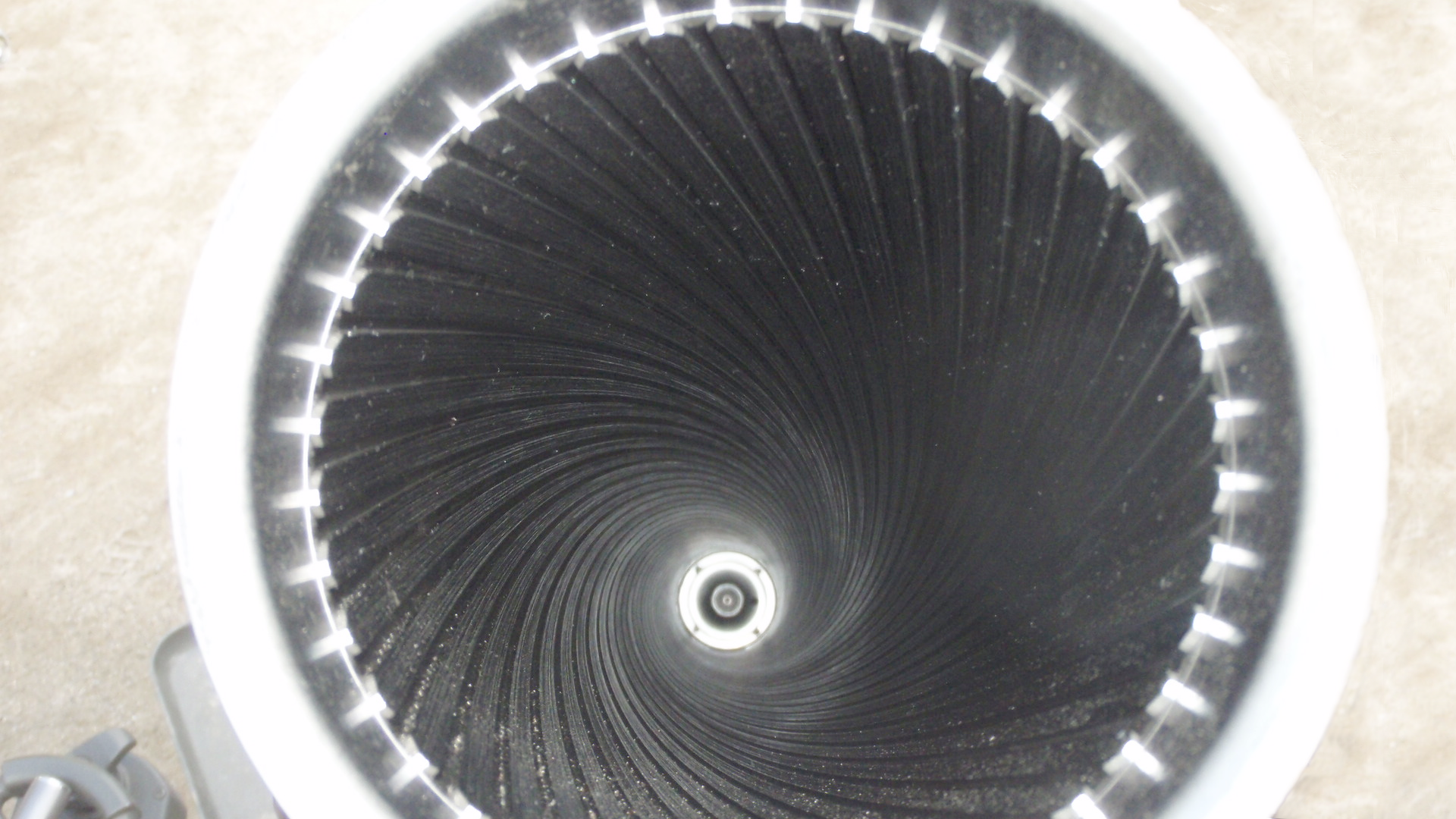 120mmMORT Rifling